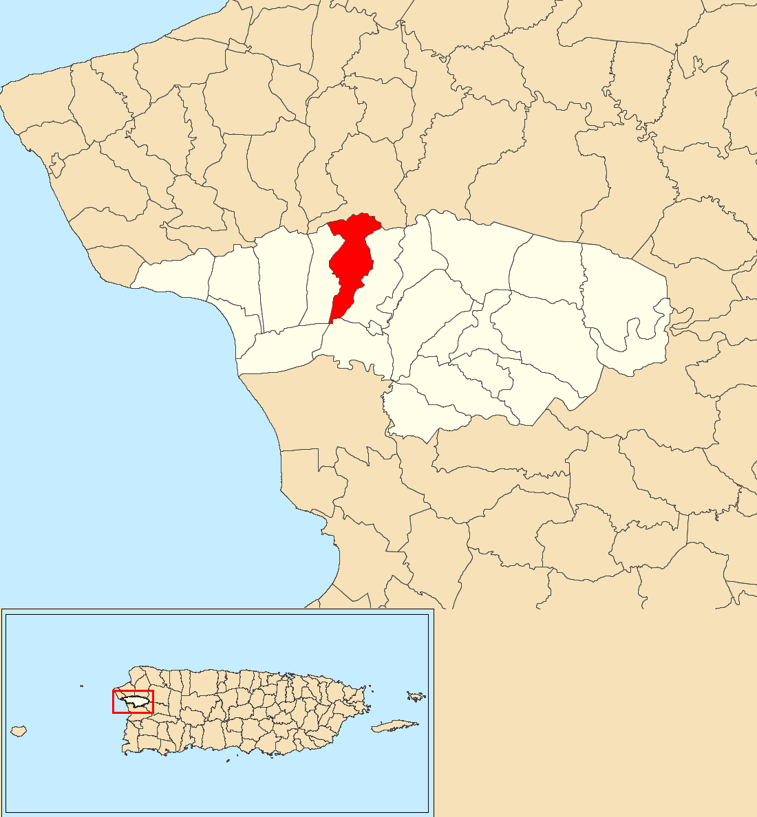 Quebrada Larga, Añasco, Puerto Rico locator map